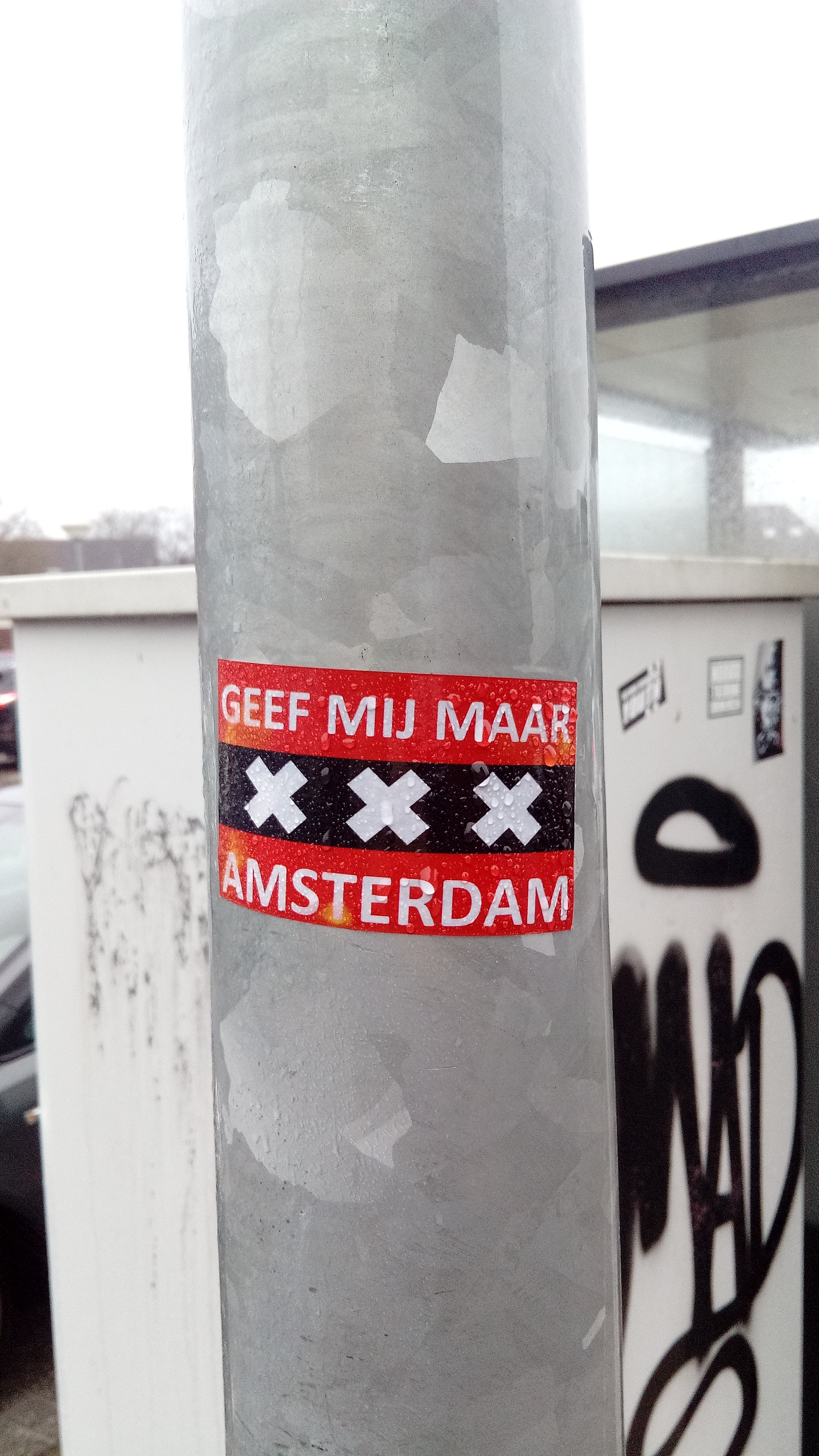 A sticker stating that the vandal who placed it here prefers the Hollandic city of Amsterdam over the settlement it is placed in in the Groninger city of Winschoten, Oldambt.